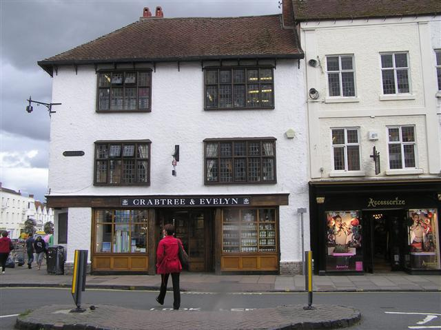 Crabtree & Evelyn, Stratford on Avon This tea room is located at High Street